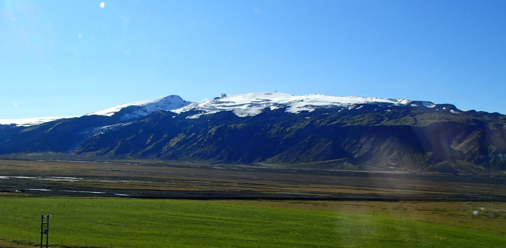 Eyjafjallajökull, seen from the North, August 2013